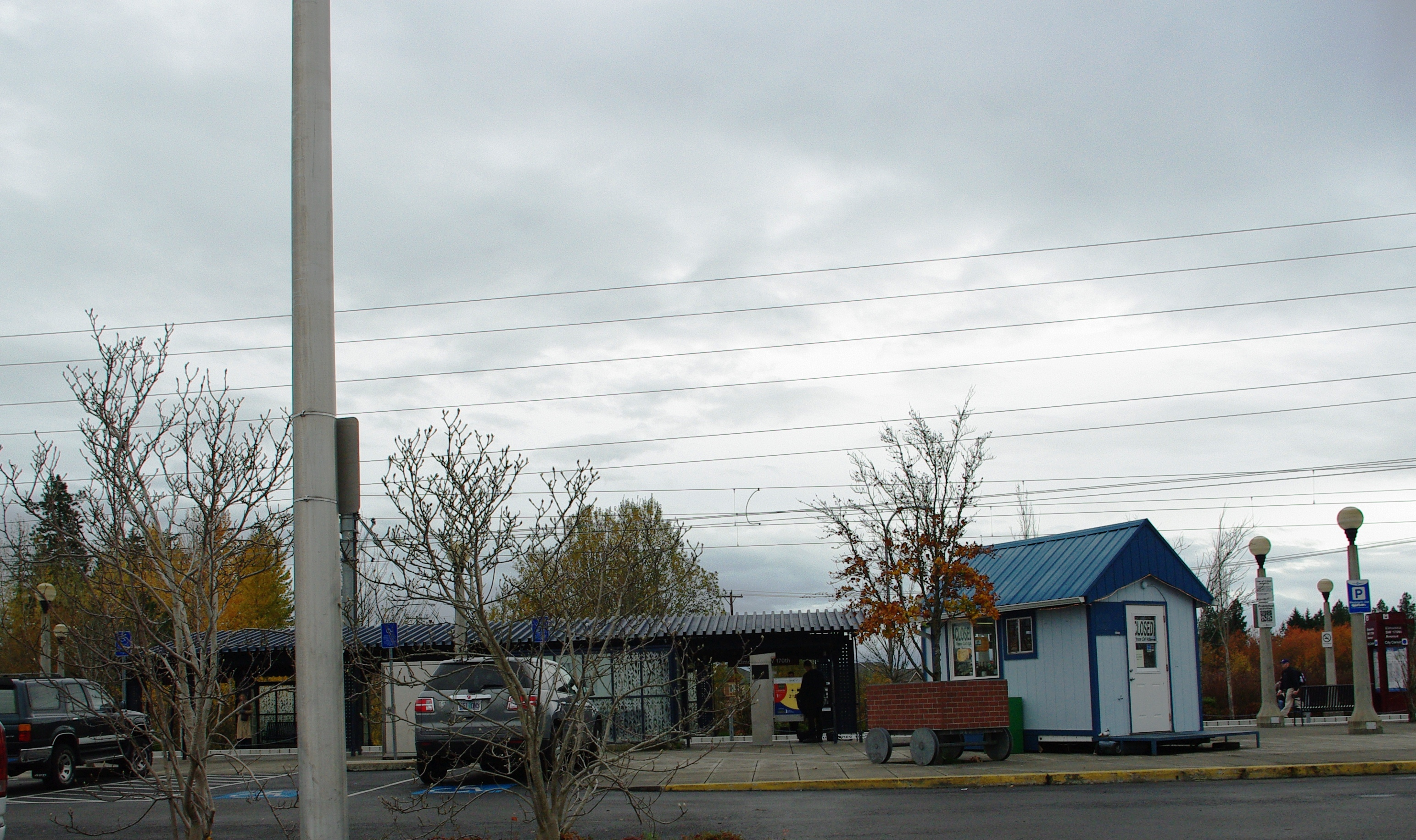 MAX station on the Blue Line in Beaverton.